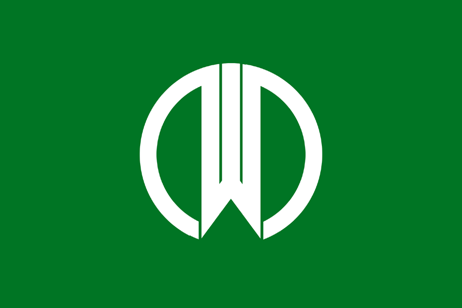 Flag of Yamagata, Yamagata